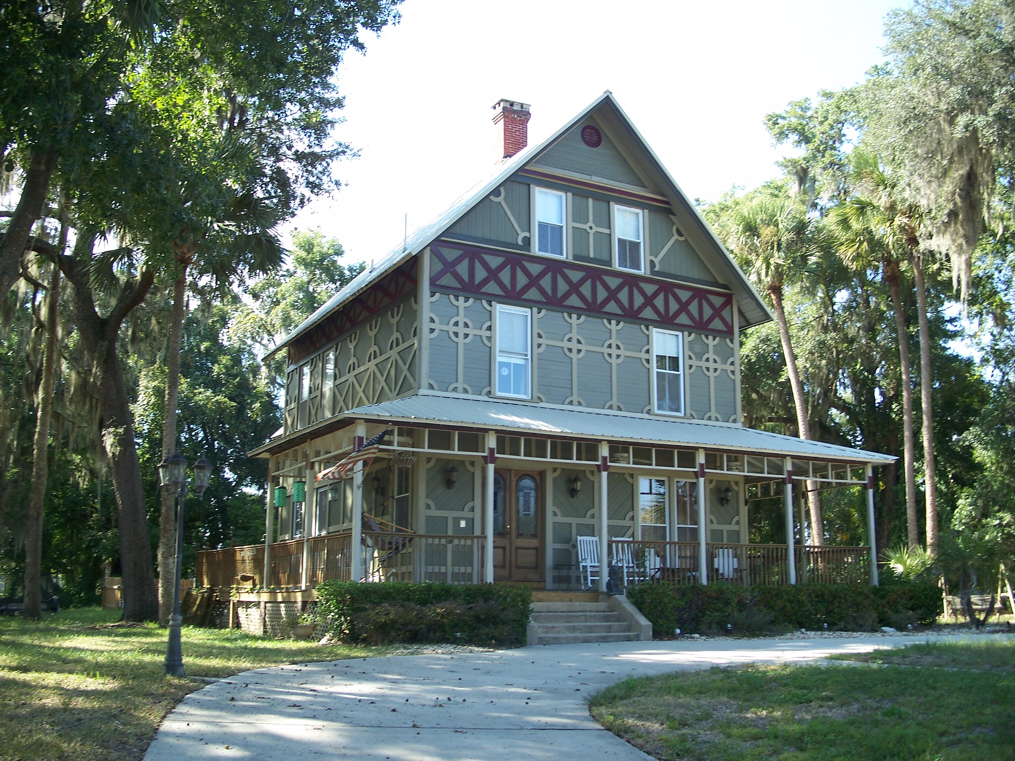 Palatka, Florida: Old house in Palatka Heights neighoborhood